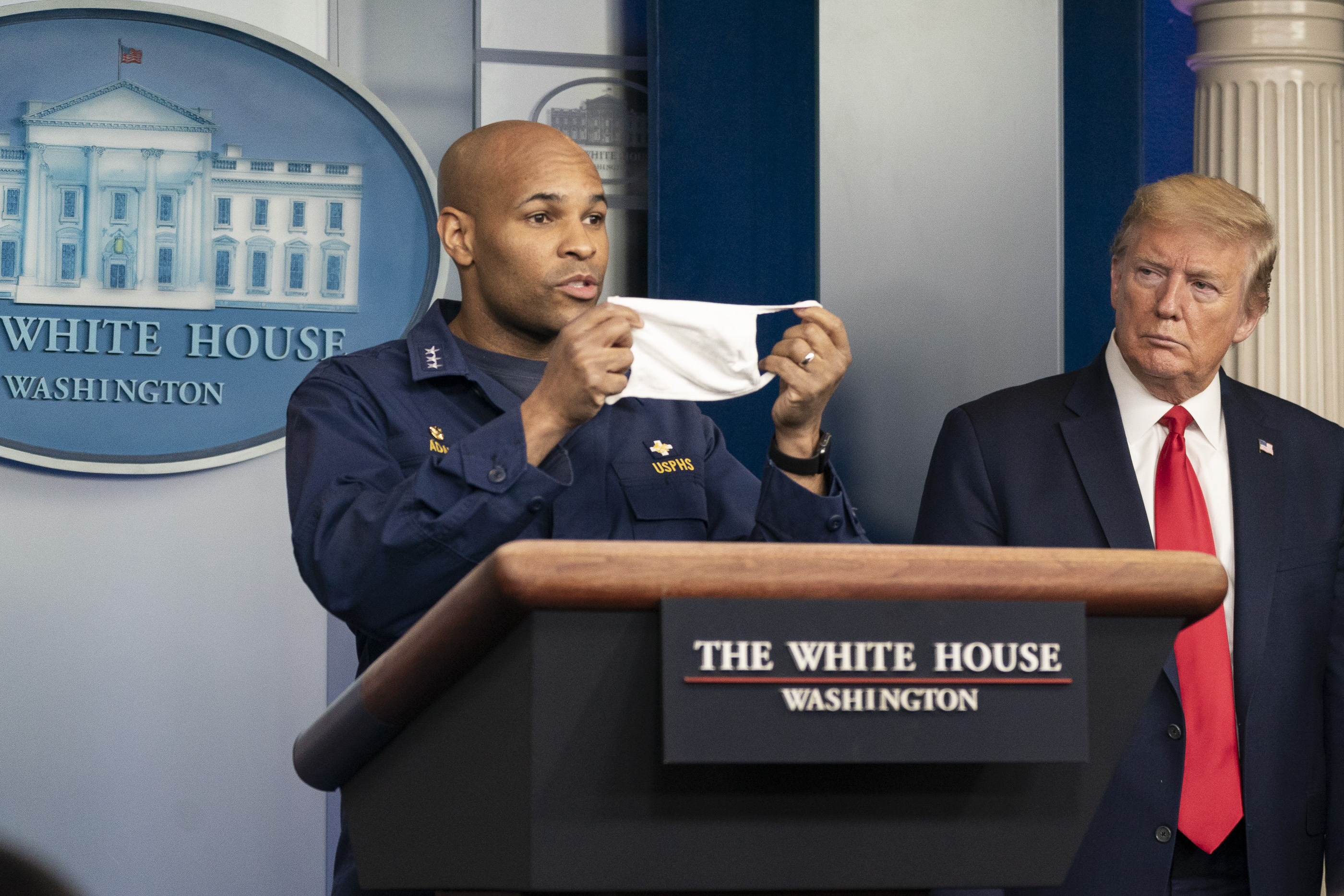 President Donald J. Trump listens as U.S. Surgeon General Jerome Adams delivers remarks and urges citizens to wear masks in public at the coronavirus (COVID-19) update briefing Wednesday, April 22, 2020, in the James S. Brady Press Briefing Room of the White House. (Official White House Photo by Shealah Craighead)